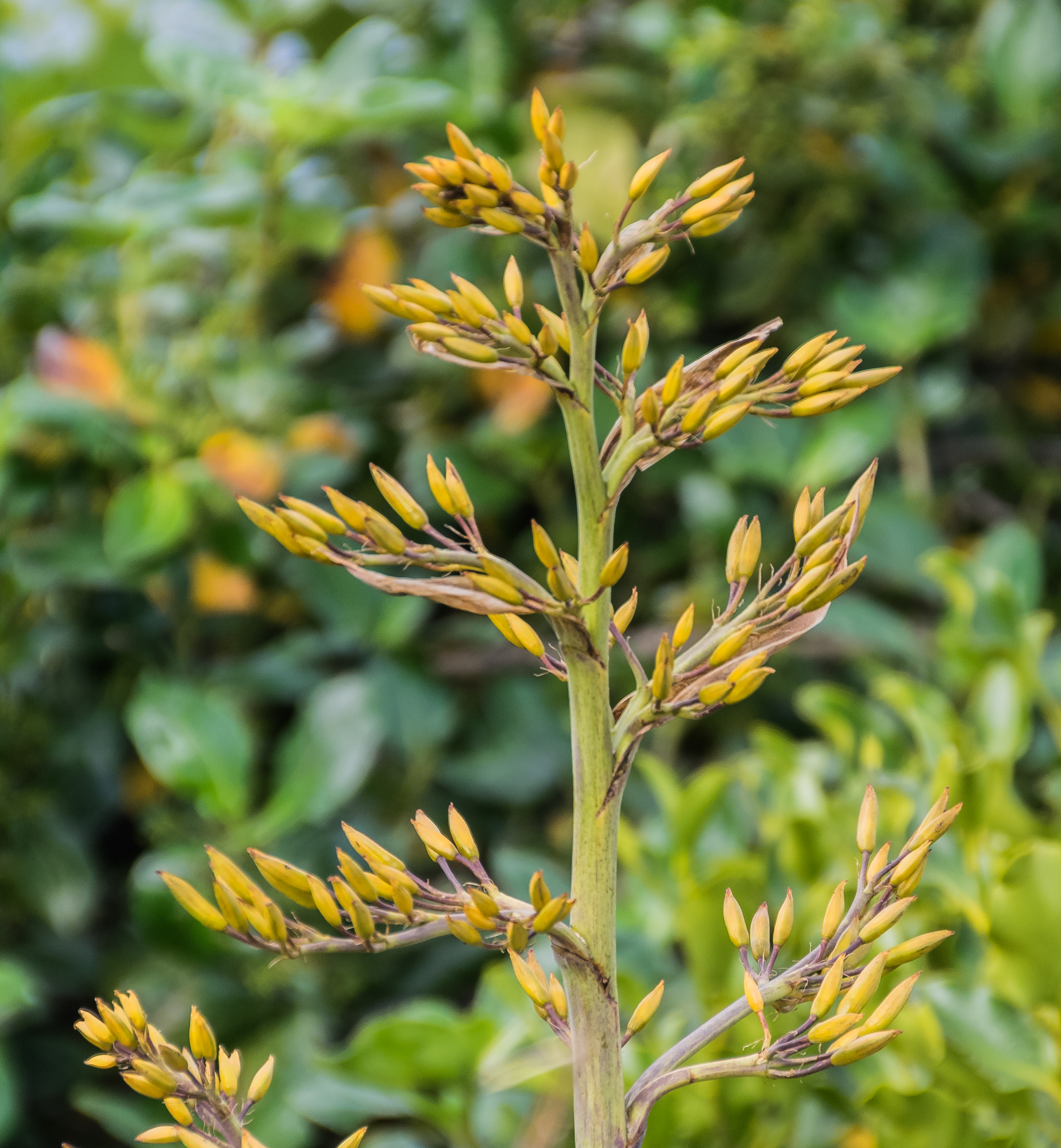 Phormium tenax near Lake Wanaka in Otago Region, South Island of New Zealand